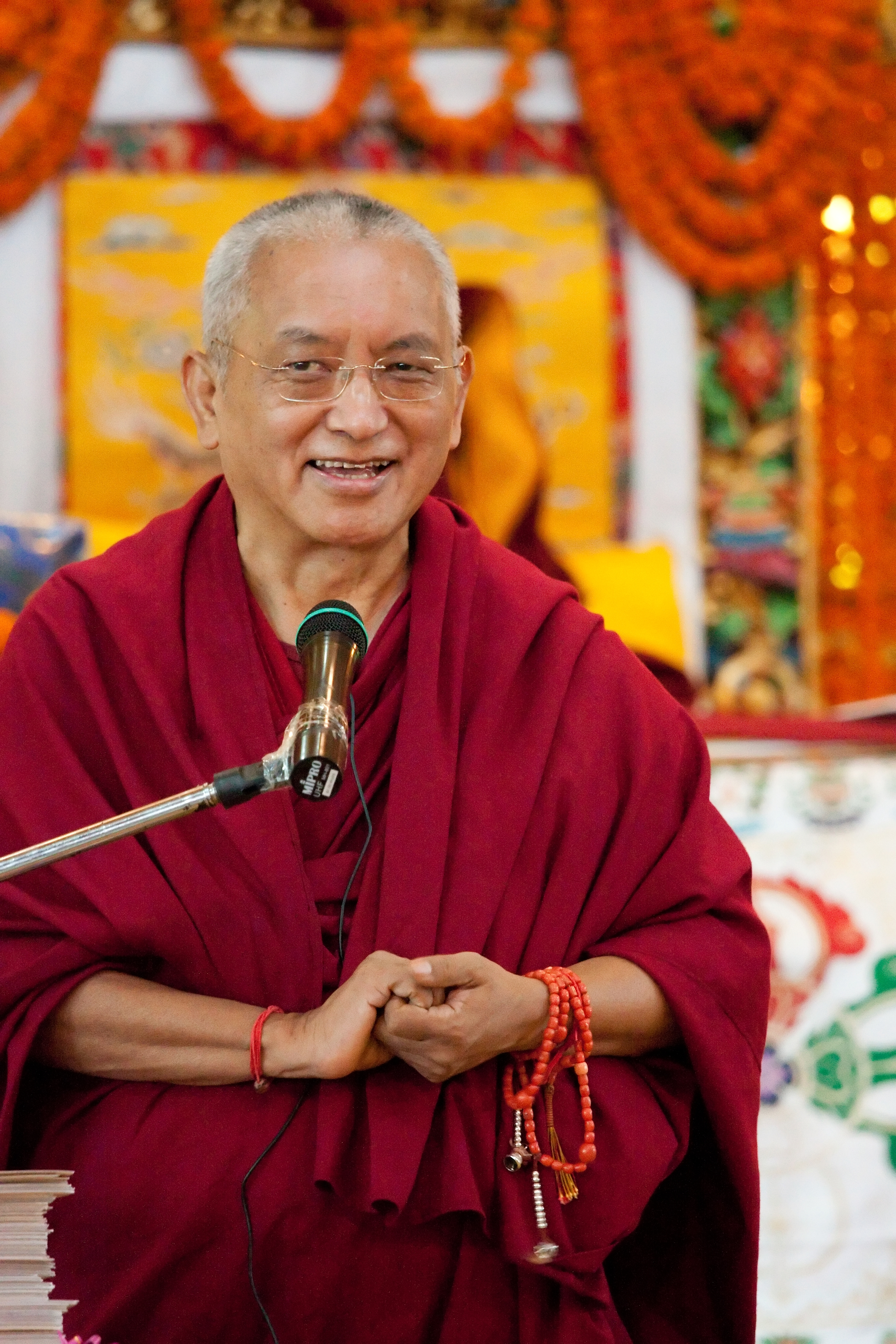 Kyabje Lama Thubten Zopa Rinpoche book "How to be happy" launch on 17th December 2008 in Kopan monastery, Nepal.